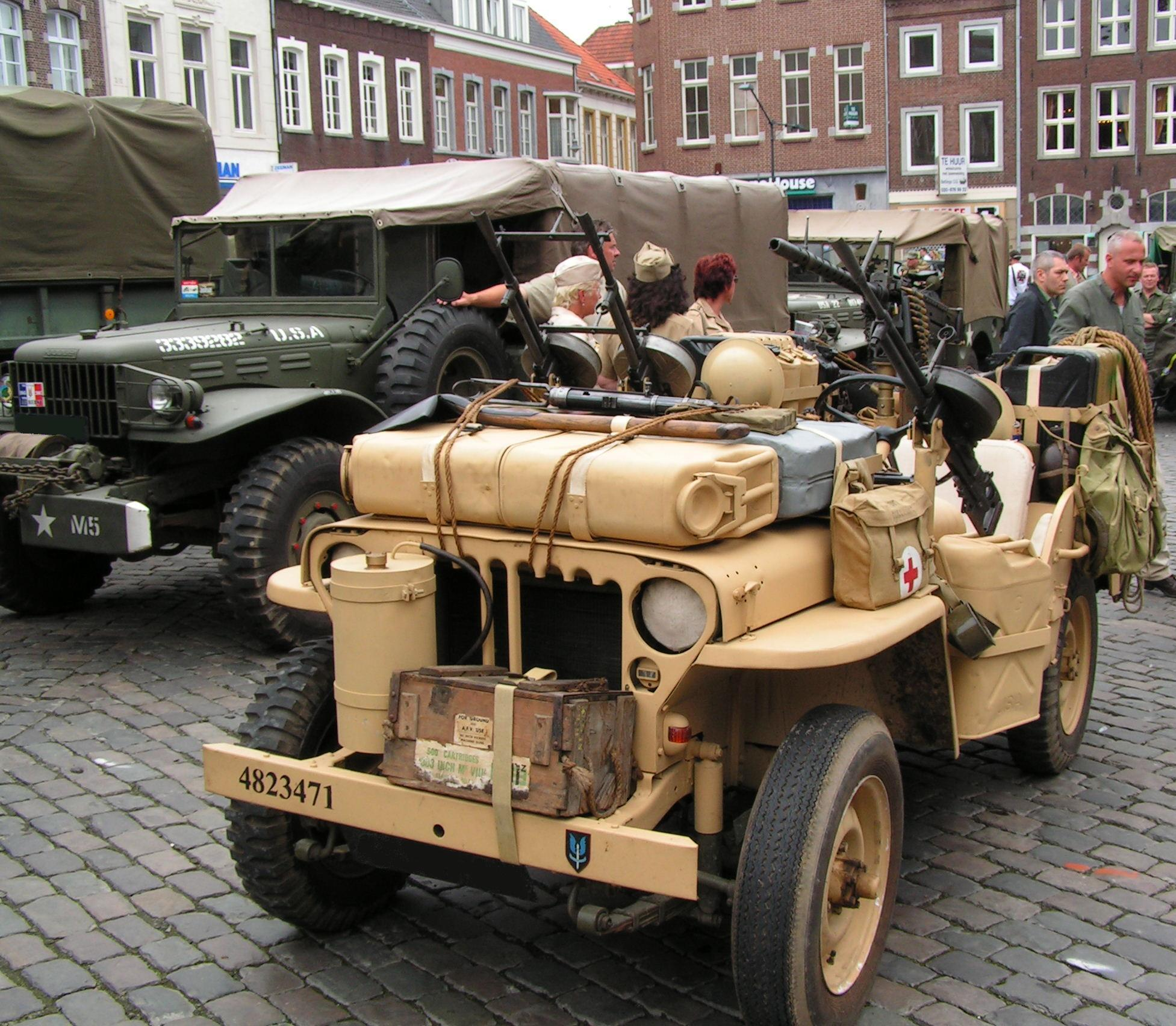 Willys MB at the 2007 Santa Fé Event in Roermond, the Netherlands.